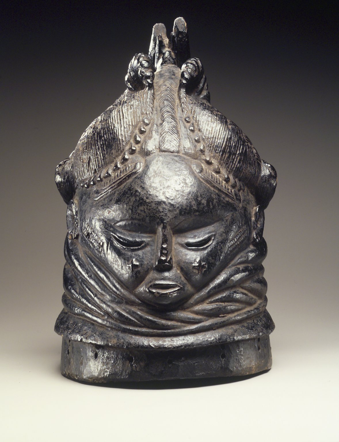 Diamond-shaped face with incised crescent-shaped eyes. Between cheeks and ears are areas of raised scarification. On each cheek there is a plus-shaped form. Mask has elaborate coiffure: In front are two combs; on top are two sets of carved antelope horns. Mask also has ornate neck rings. Around the base are several small holes for fastening. Condition: Condition is good. One set of antelope horns have old breaks that are patinated.